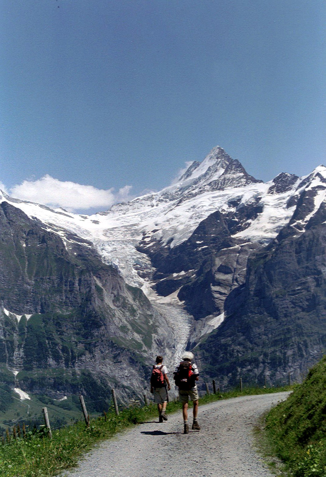 Grinderwaldgletscher with Schreckhorn, Switzerland.